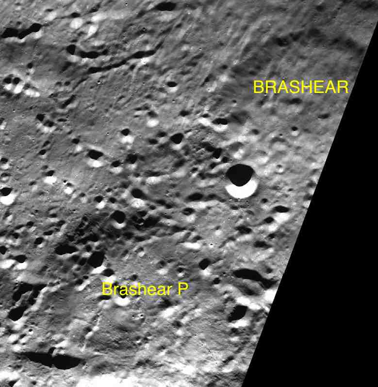 Part of the chart LAC-141 used for the presentation